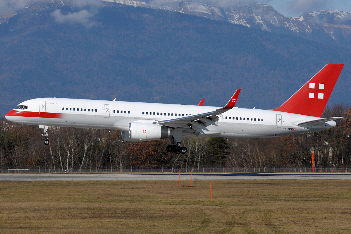 Privatair Boeing 757-200 landing in Geneva Airport